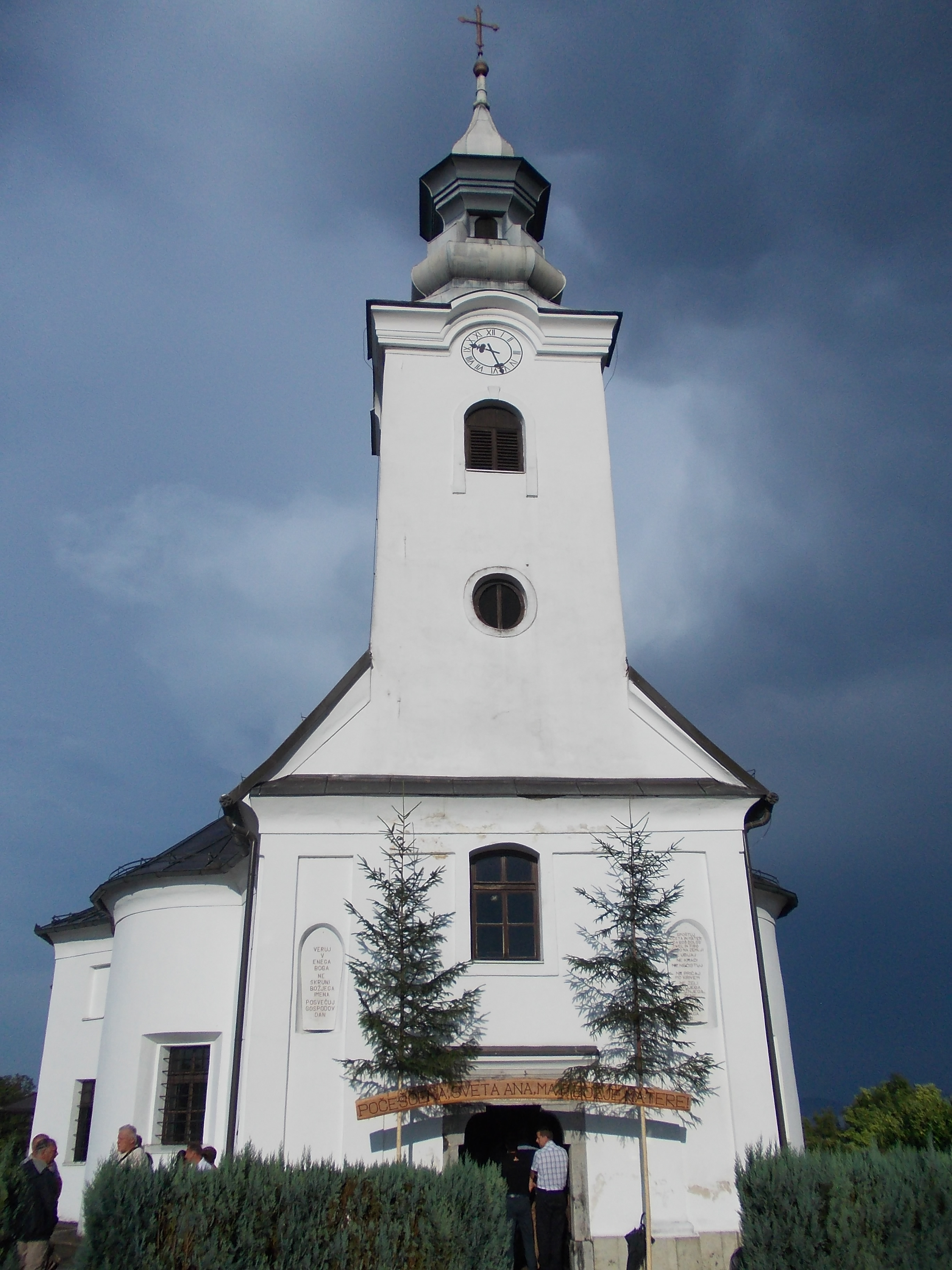 St. Andrew's Parish Church (Bela Cerkev)